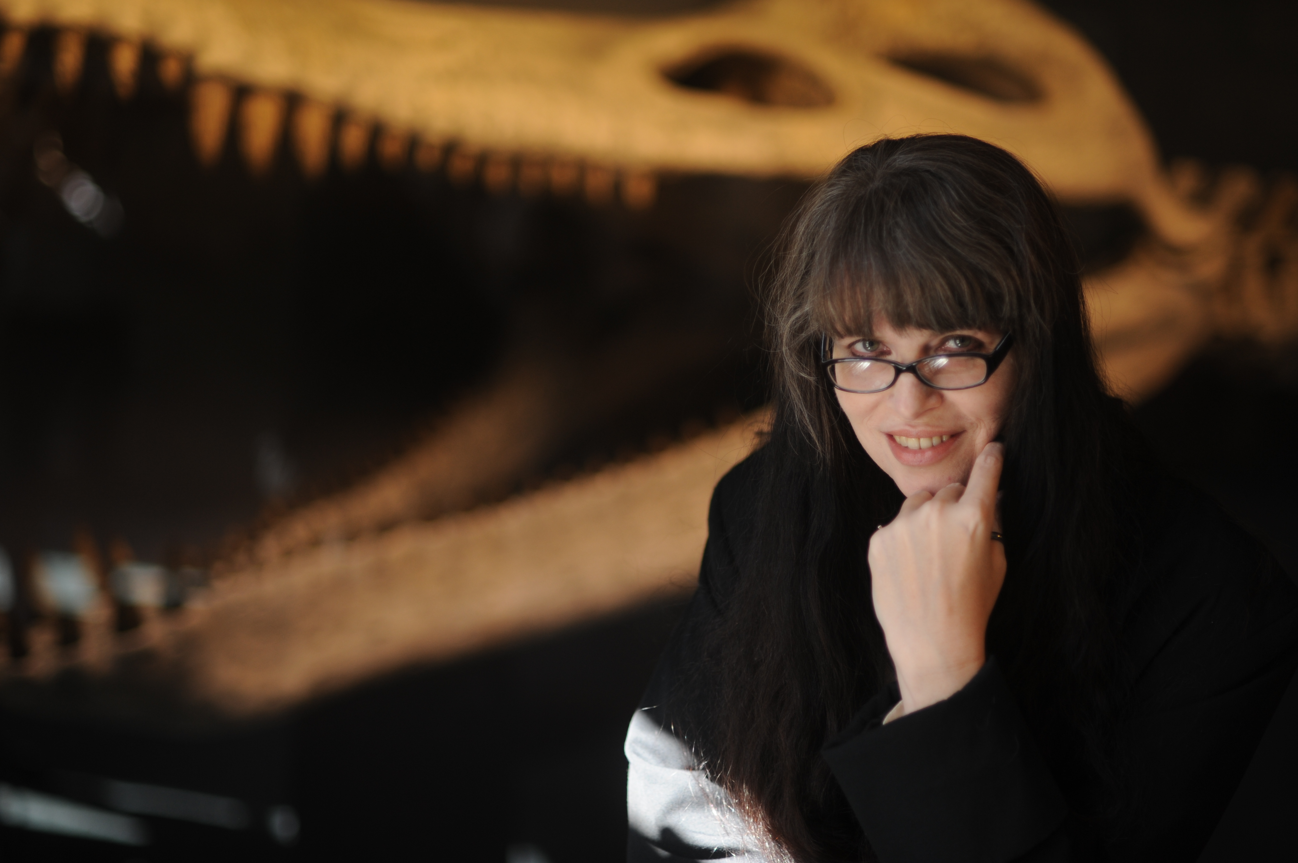 Caitlín R. Kiernan